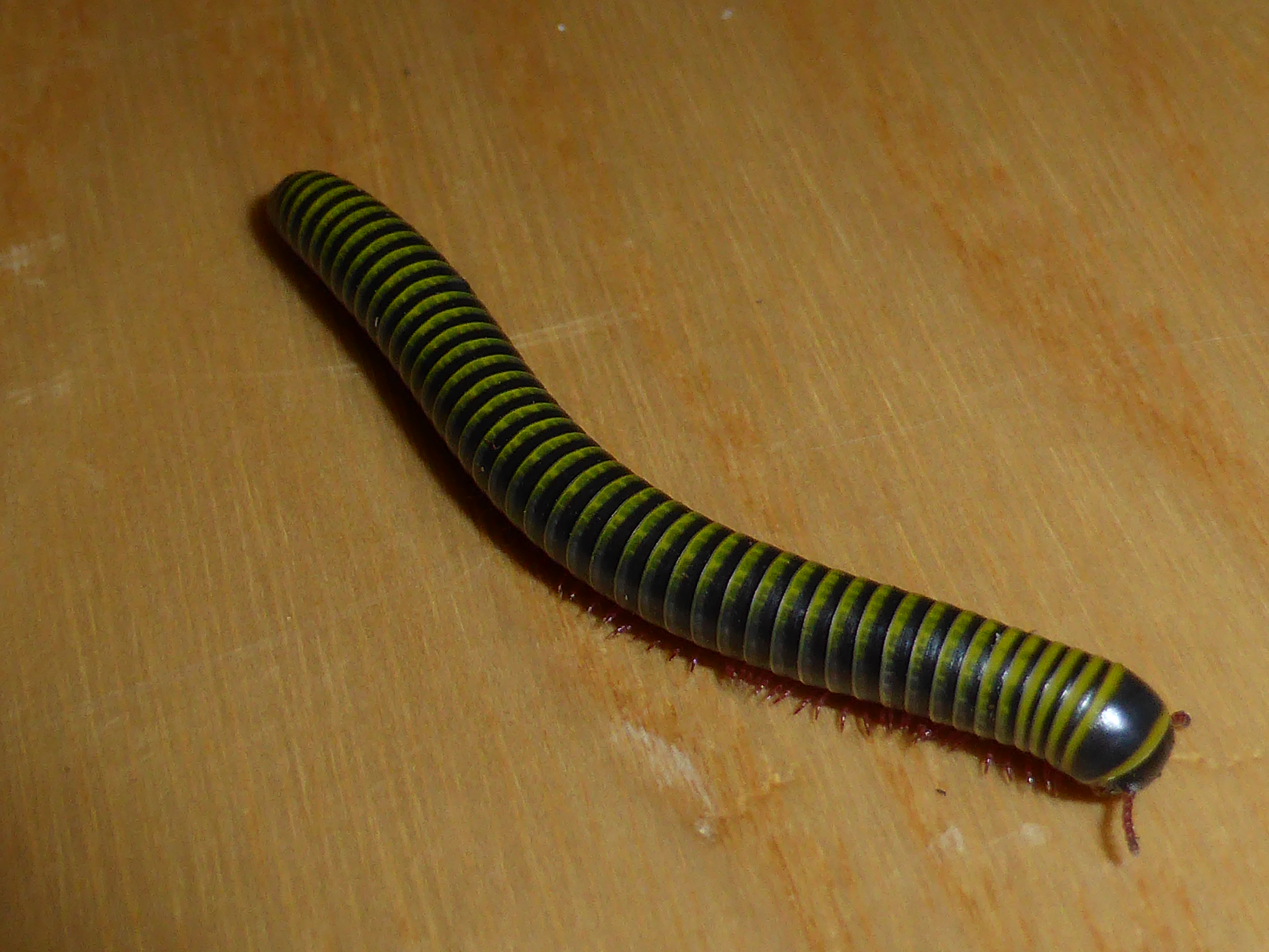 Adult Anadenobolus monilicornis. This animal is the property of Eveha.